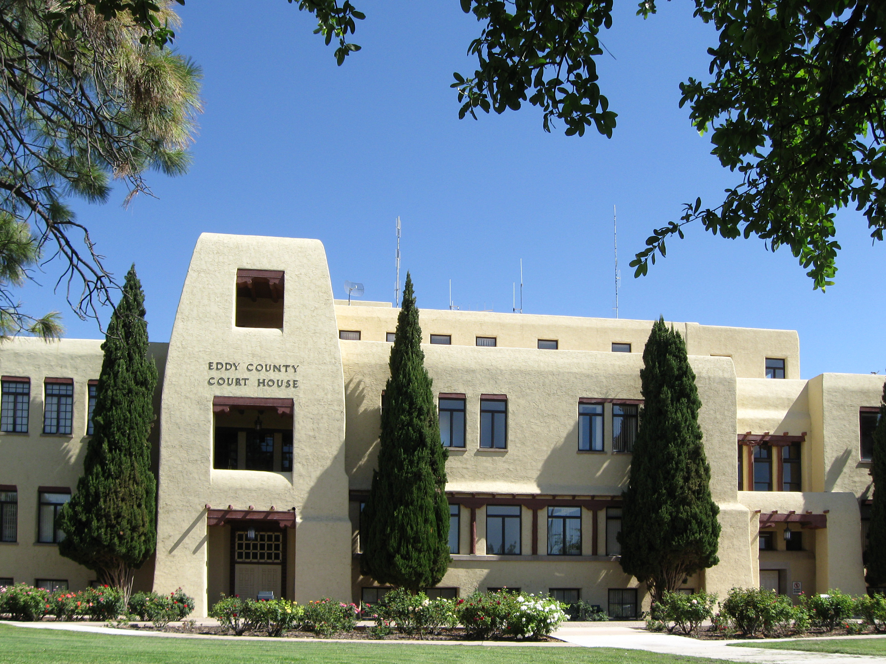 Eddy County (New Mexico) Court House, located at 102 N. Canal in Carlsbad, New Mexico. According to a plaque in front, the court house was built in 1891 in dark red brick and converted to its current style in 1939.